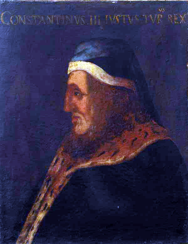 Judge of Giudicato of Logudoro (Torres): Constantine III?